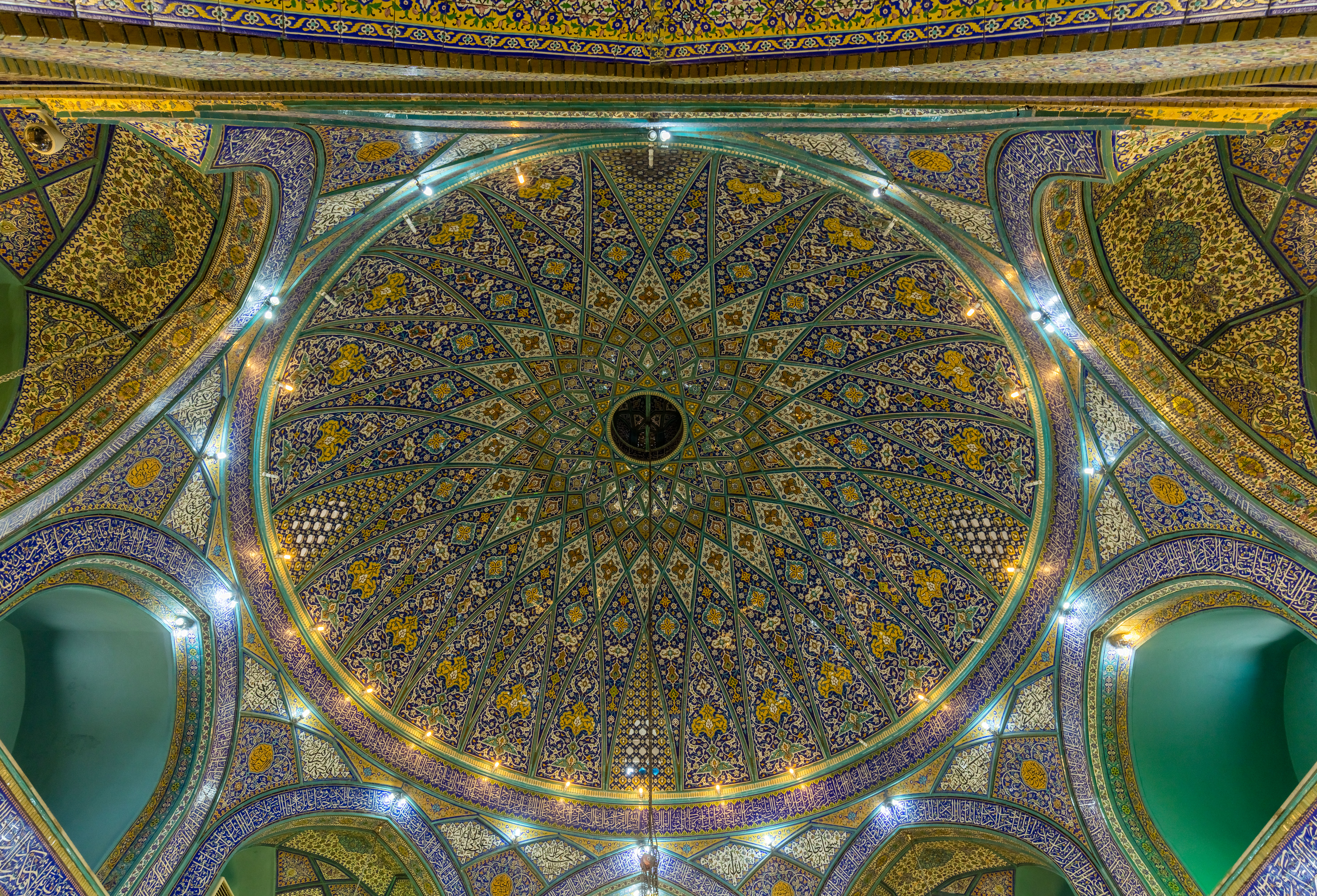 Interior view of the Shah Mosque, renamed to Imam Mosque, after the 1979 Iranian Revolution, located in the northern section of the Grand Bazaar in Tehran, Iran. It was built to the order of Fath-Ali Shah Qajar of Persia during the Qajar period, as one of several such symbols of legitimacy for the new dynasty. At the time of completion, the mosque was considered to be the most significant architectural monument in Tehran.